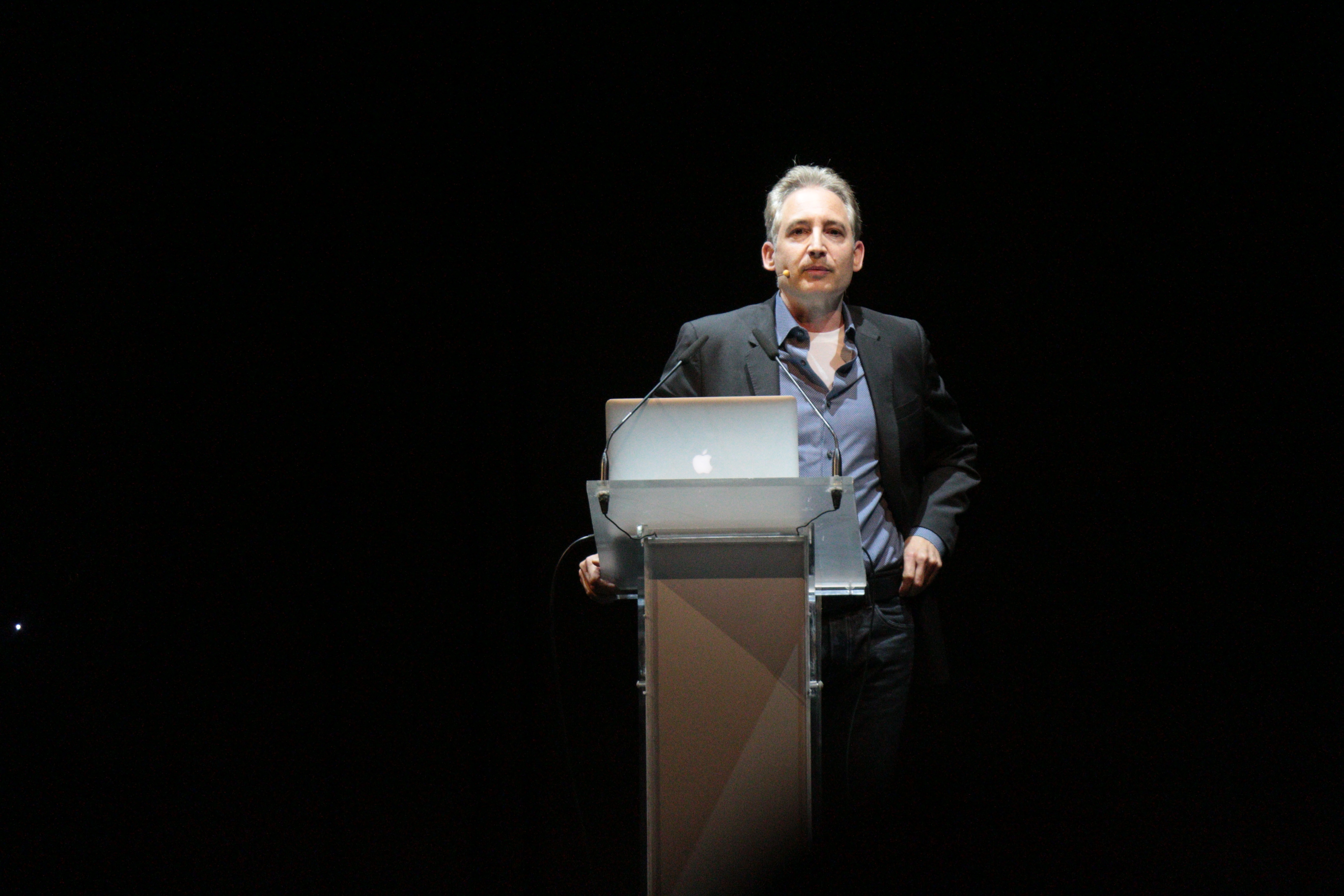 Starmus 2016. Tenerife, Canary Islands.